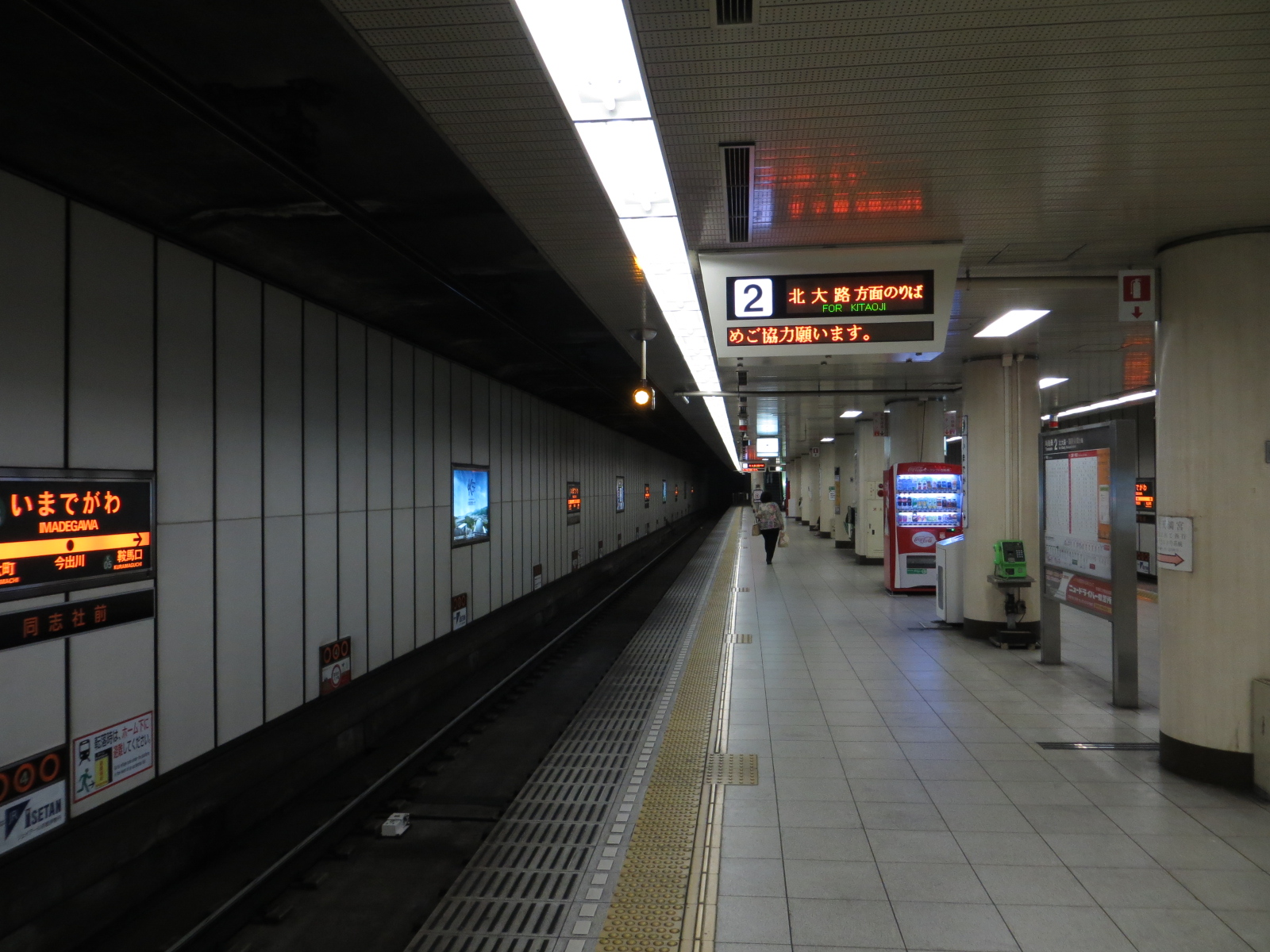 Platform from Imadegawa Station(K06), Karasuma Line.